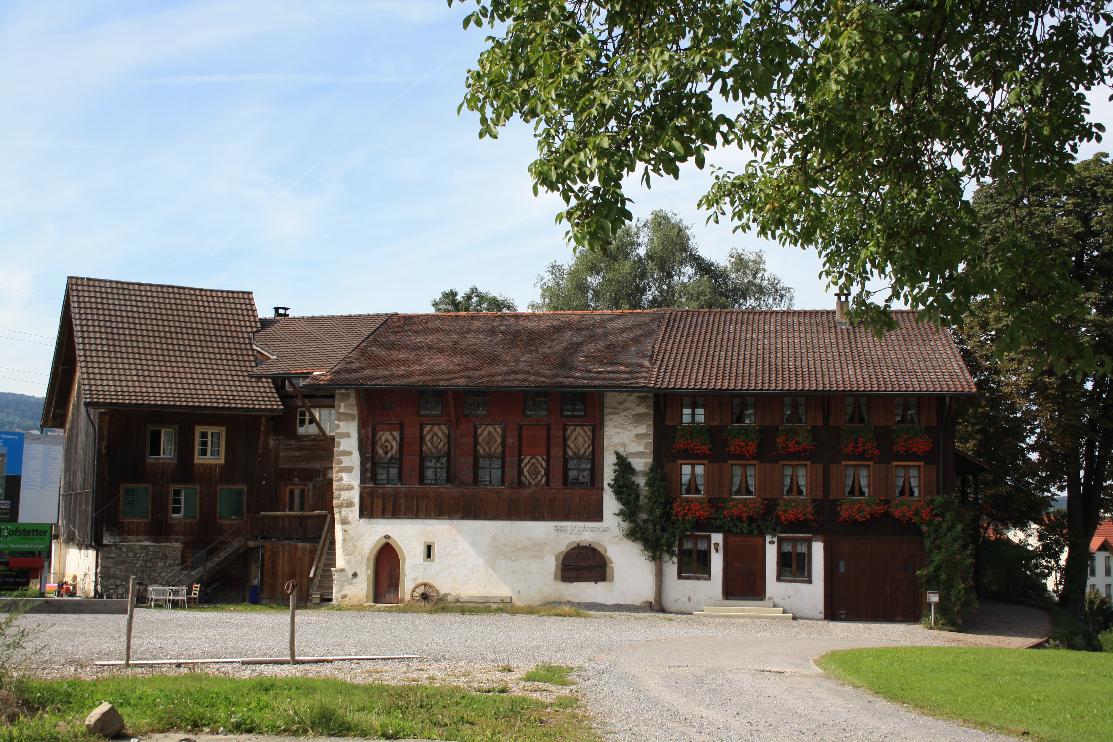 former "Amtshaus" at Meienberg, Sins, Aargau, Switzerland